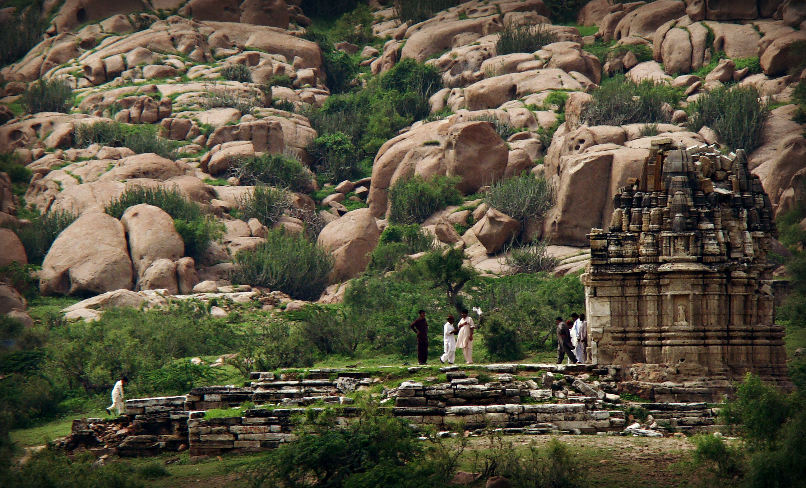 Nagar Parkar - A Jain temple, there is no such worshiper of Jain left in Pakistan now. This is a photo of a monument in Pakistan identified as the SD-64